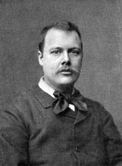 Houston Stewart Chamberlain